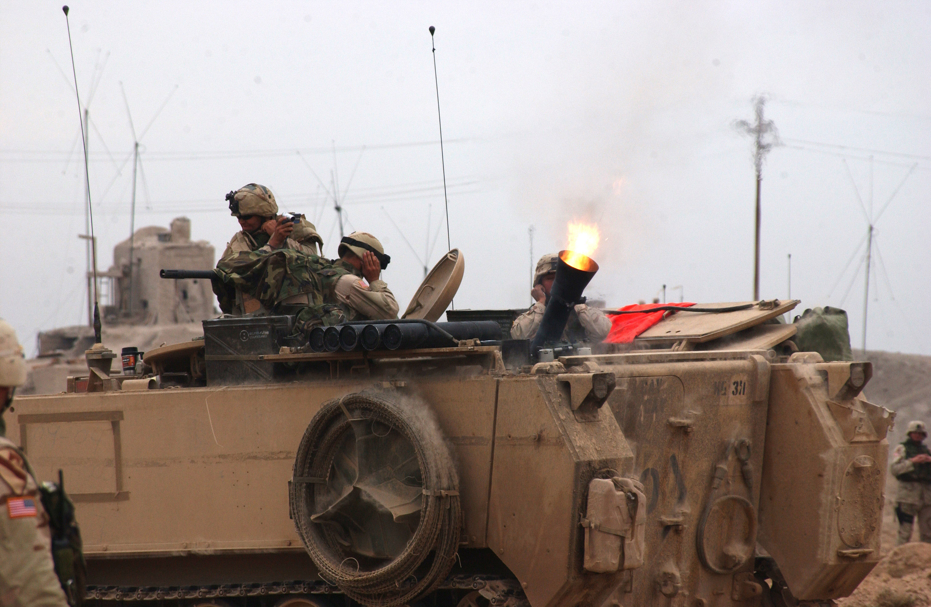 U.S. Army soldiers fire a mortar at insurgent positions in Fallujah, Iraq, during Operation al Fajr (New Dawn) on Nov. 8, 2004. The soldiers are assigned to Headquarters Company, 2nd Battalion, 5th Cavalry Regiment, 2nd Brigade Combat Team, 1st Cavalry Division.